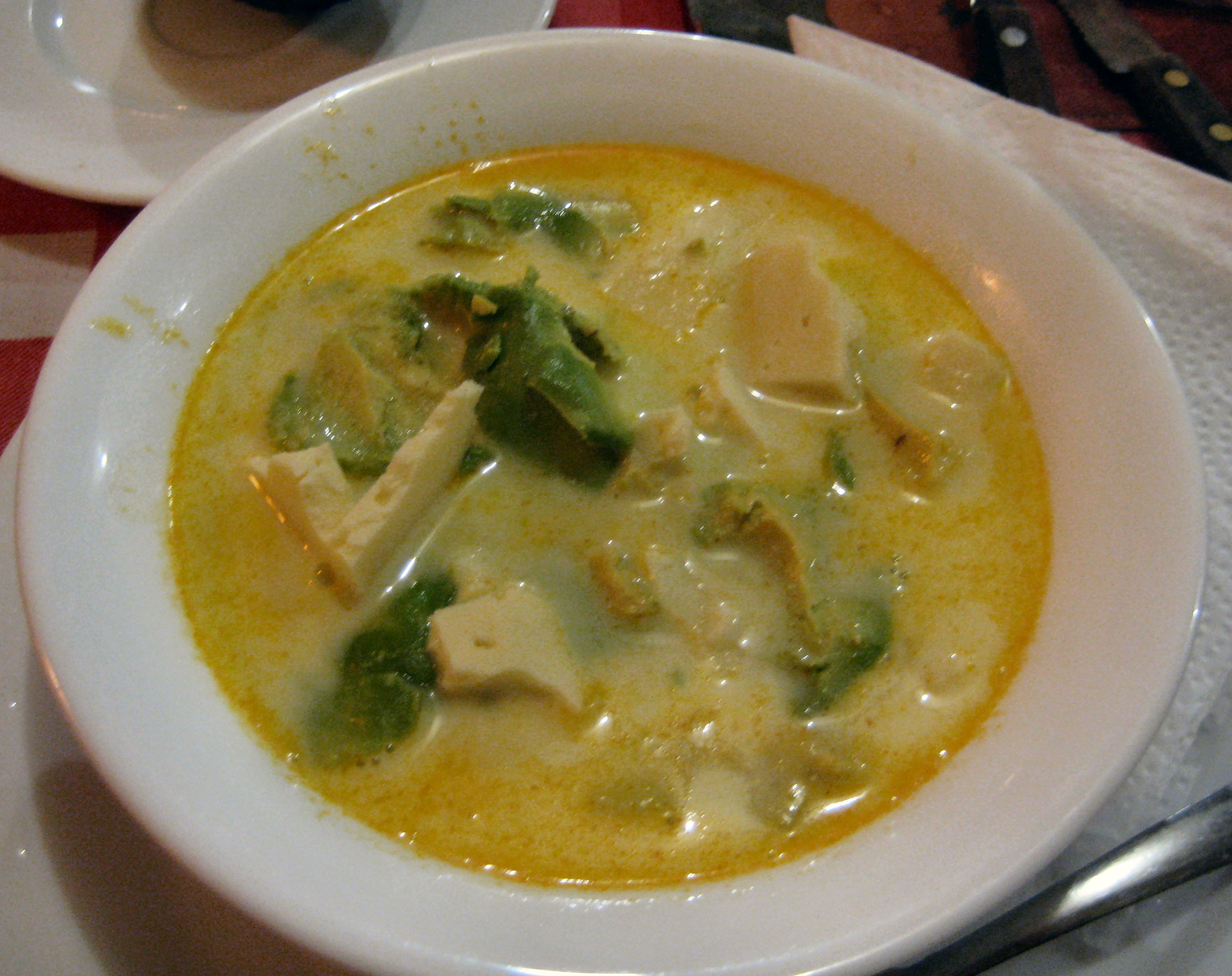 Locro de Papa. famous Ecuadorian soup with avocados, potatoes and cheese, Ecuador.